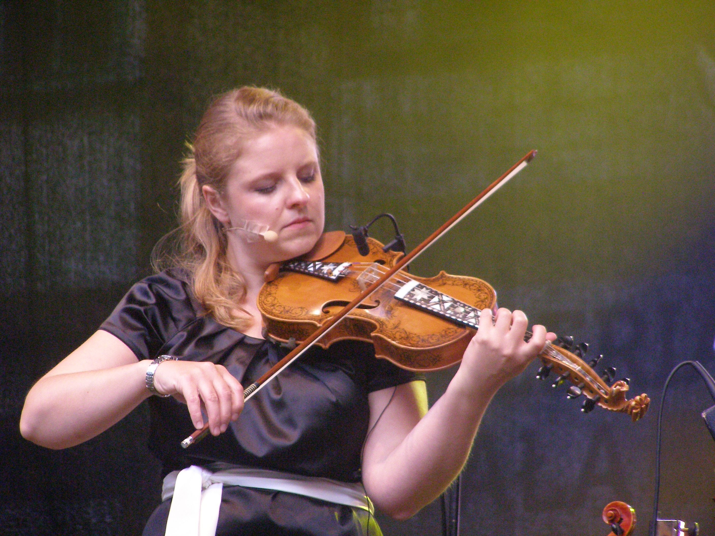 Gdańsk - Jorun Marie Kvernberg - Seabridge: Tindra & Kroke concert during the 30th Festival of Music Inspired by Folklore "Sounds of the North. Norwegian Panorama" in the Adam Mickiewicz Oliwa Park.